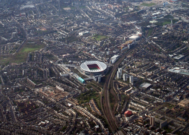 An aerial view of the Emirates Stadium. The demolition of the former Highbury ground can also be seen to the left of the new structure.